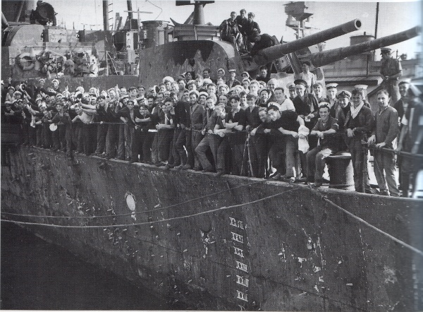 British cruiser HMS Penelope in Gibraltar after escaping from Malta. Wooden plugs are visible in shell splinter holes in hull.